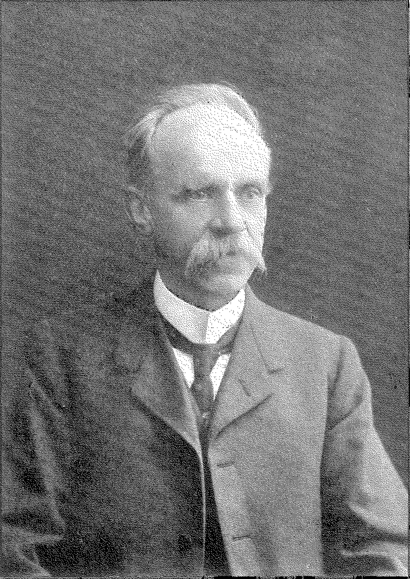 Black-and-white photo of Gerard Pierre Laurent Kalshoven Gude.